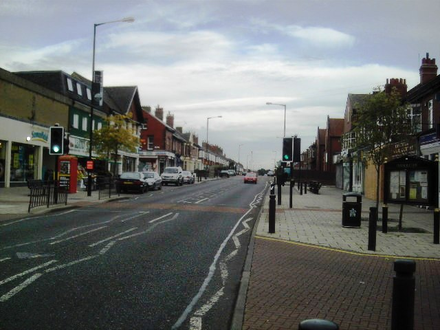 Chillingham Road North Commerce melts into residential at the North end of this popular suburban stretch.